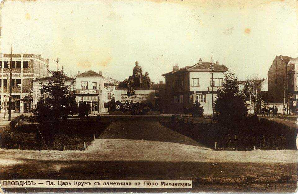 Tsar Krum Square, Plovdiv